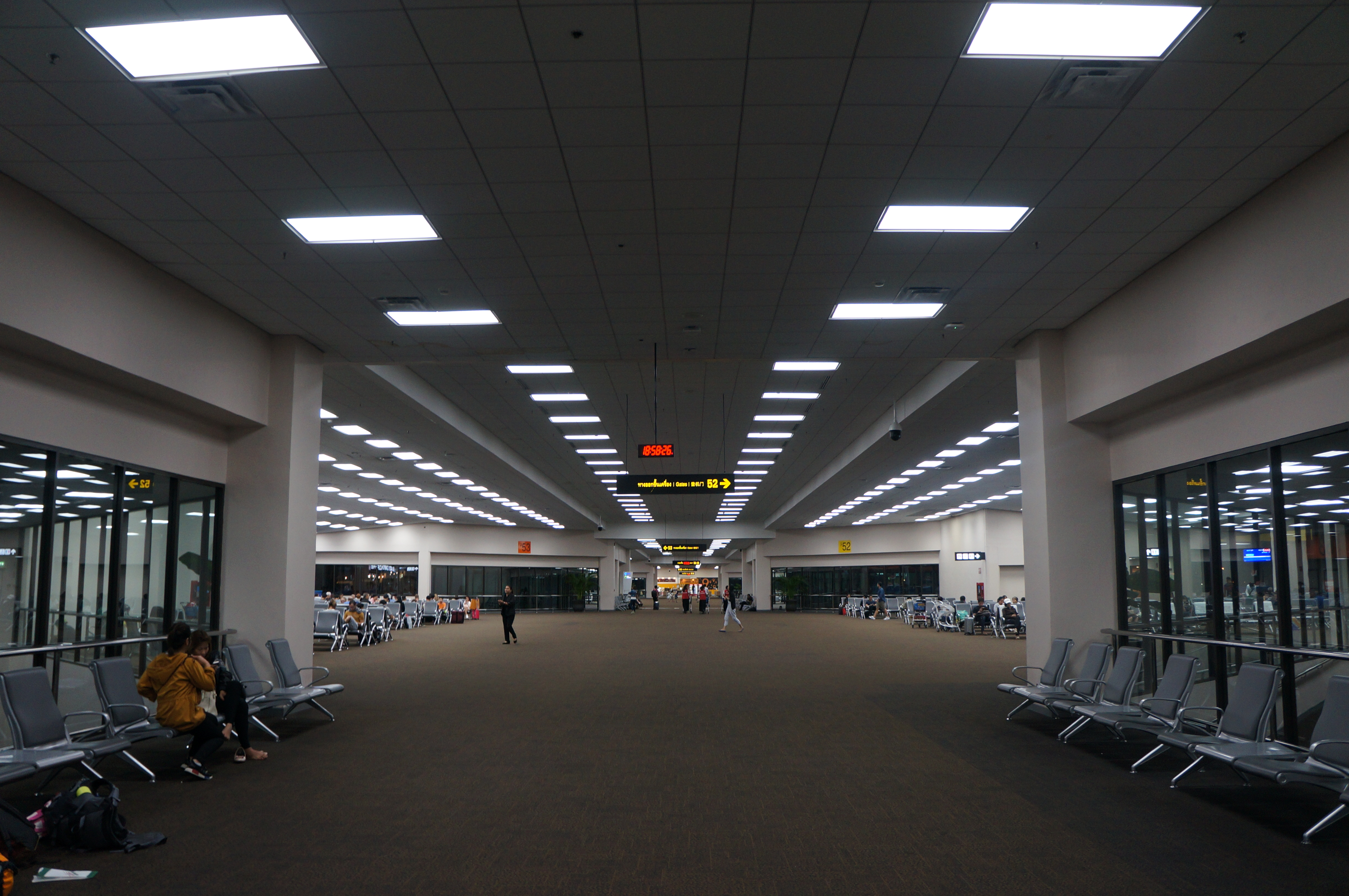 201701 Western Departure Corridor in Domestic Terminal of DMK